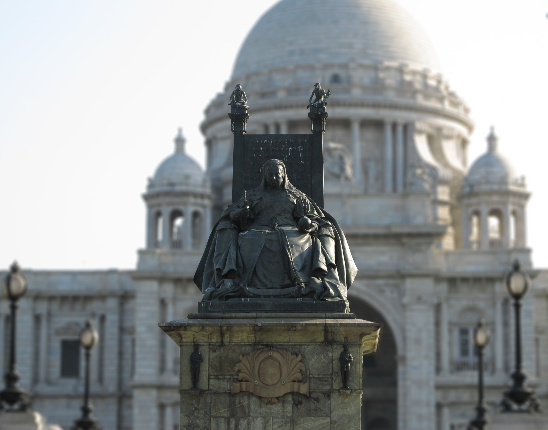 Statue of Queen Victoria (Empress of India, 1 May 1876 – 22 January 1901) in front of Victoria Memorial Hall, Kolkata (calcutta)